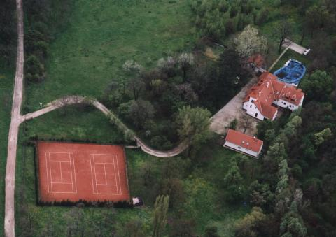 Nemesvita, Hungary, aerialphotography